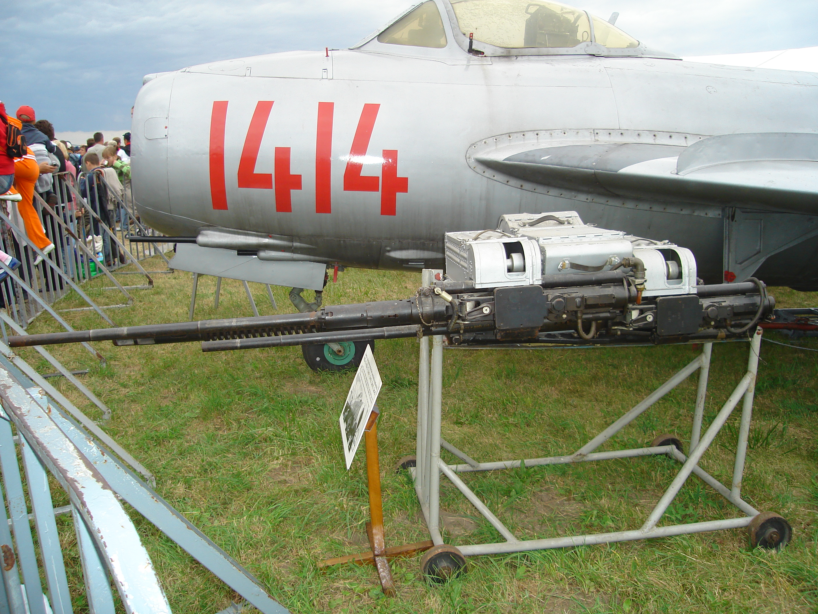 Picture of MiG-17 guns, Radom Air Show 2007